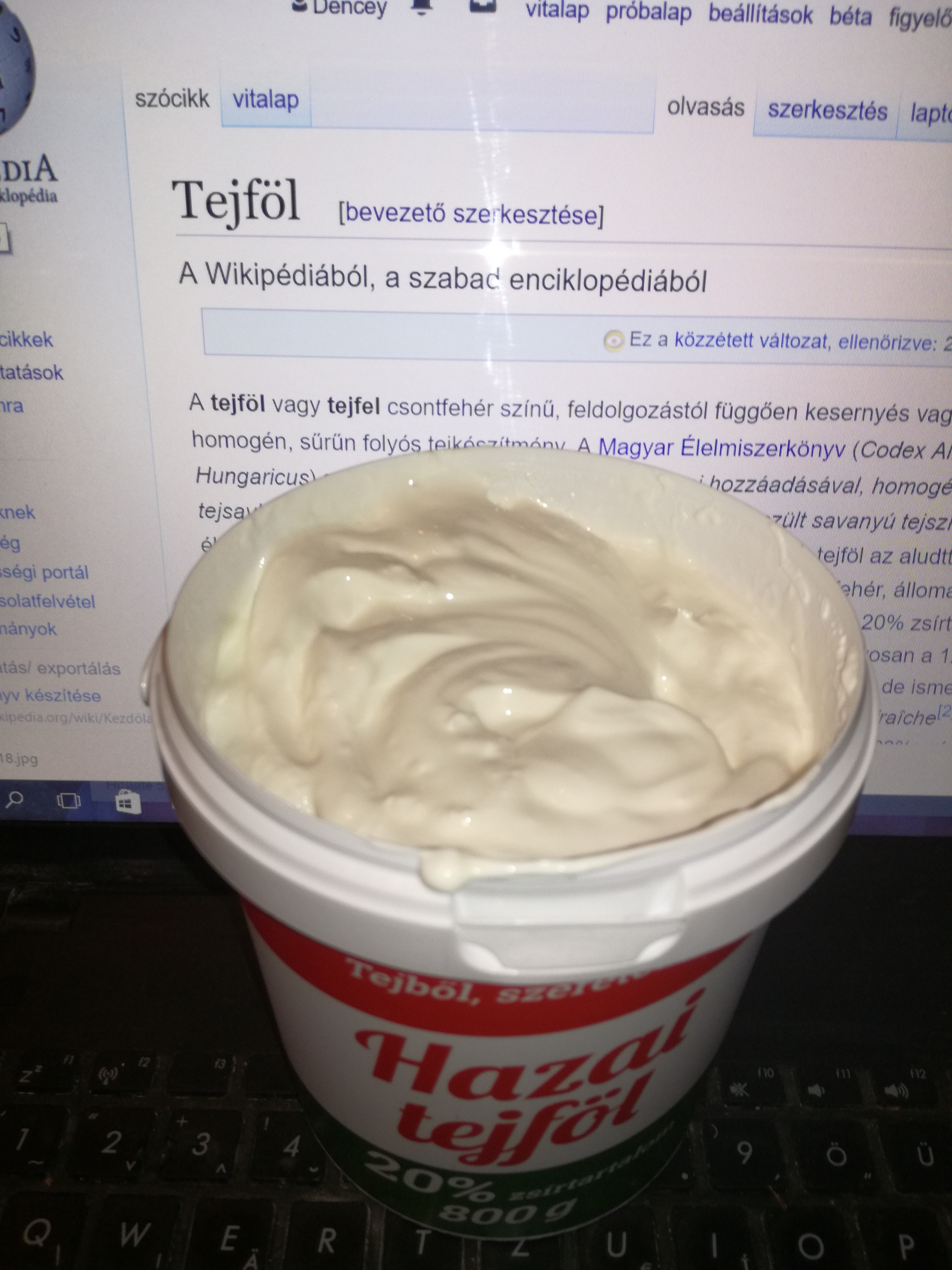 Hungarian tejföl (sour cream) 20 %